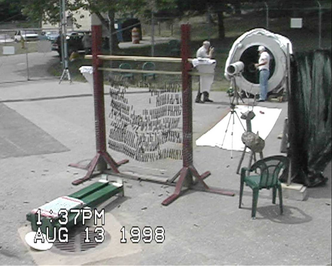 Field test setup of a prototype Vortex Ring Gun firing blank cartridges with different propellants to gage the ring vortex knockdown strength, flight size, velocity, spin sounds and particle transport capabilities when launched subsonically from a constant diameter, variable length gun barrel.